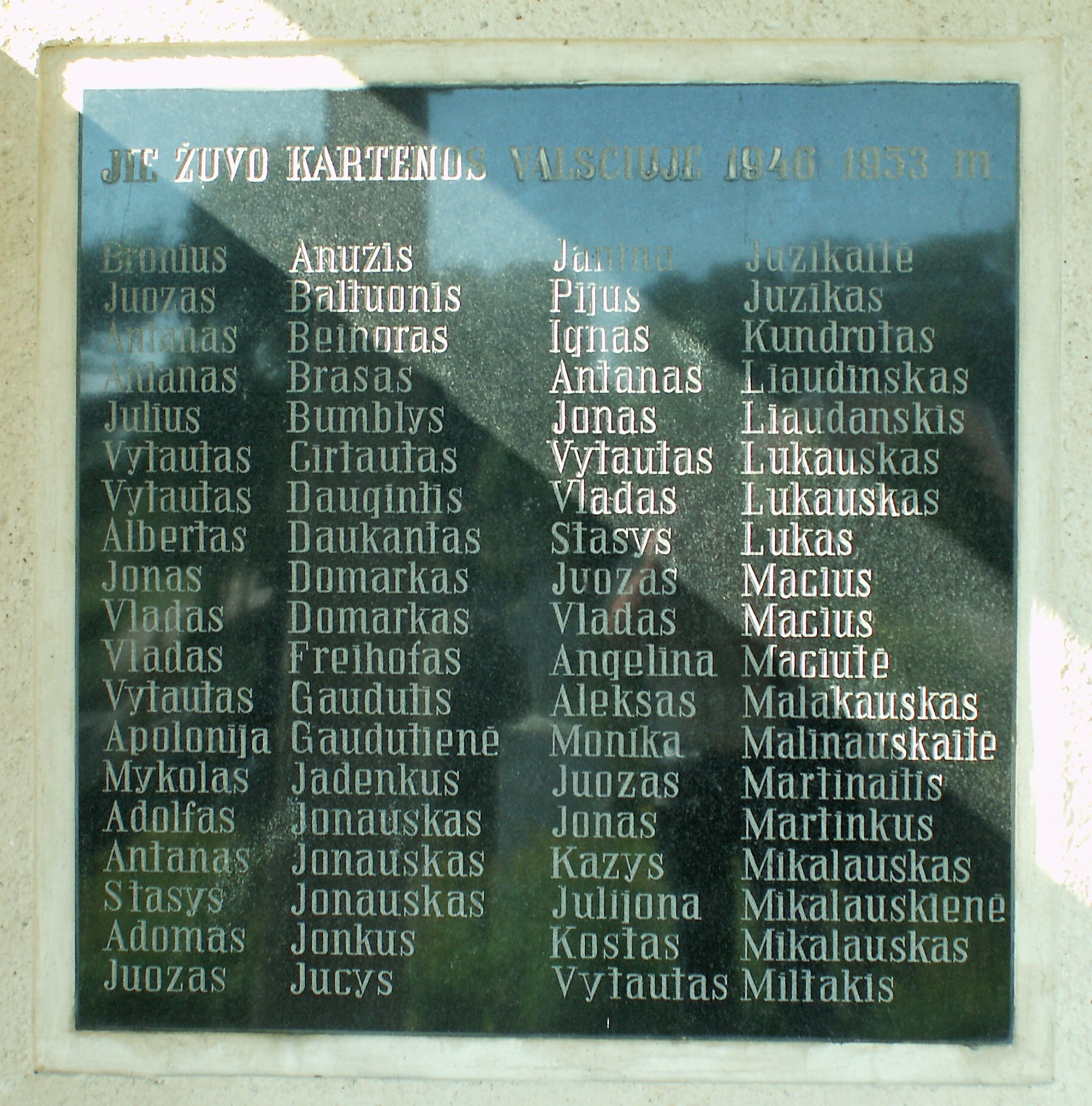 Kartena monument to the victims of Bolshevism, Kretinga district, LithuaniaLietuvių: Kartenos paminklas bolševizmo aukoms, Kretingos rajonas, Lietuva